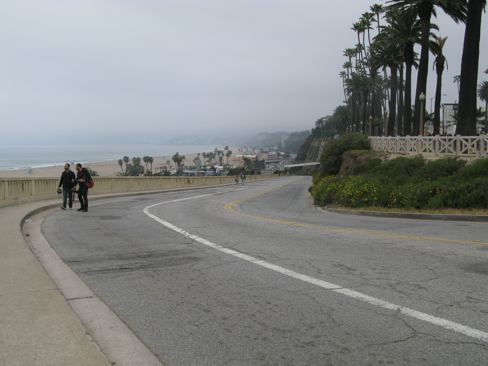 The California Incline in Santa Monica, California, facing north. Palisades Park on right.